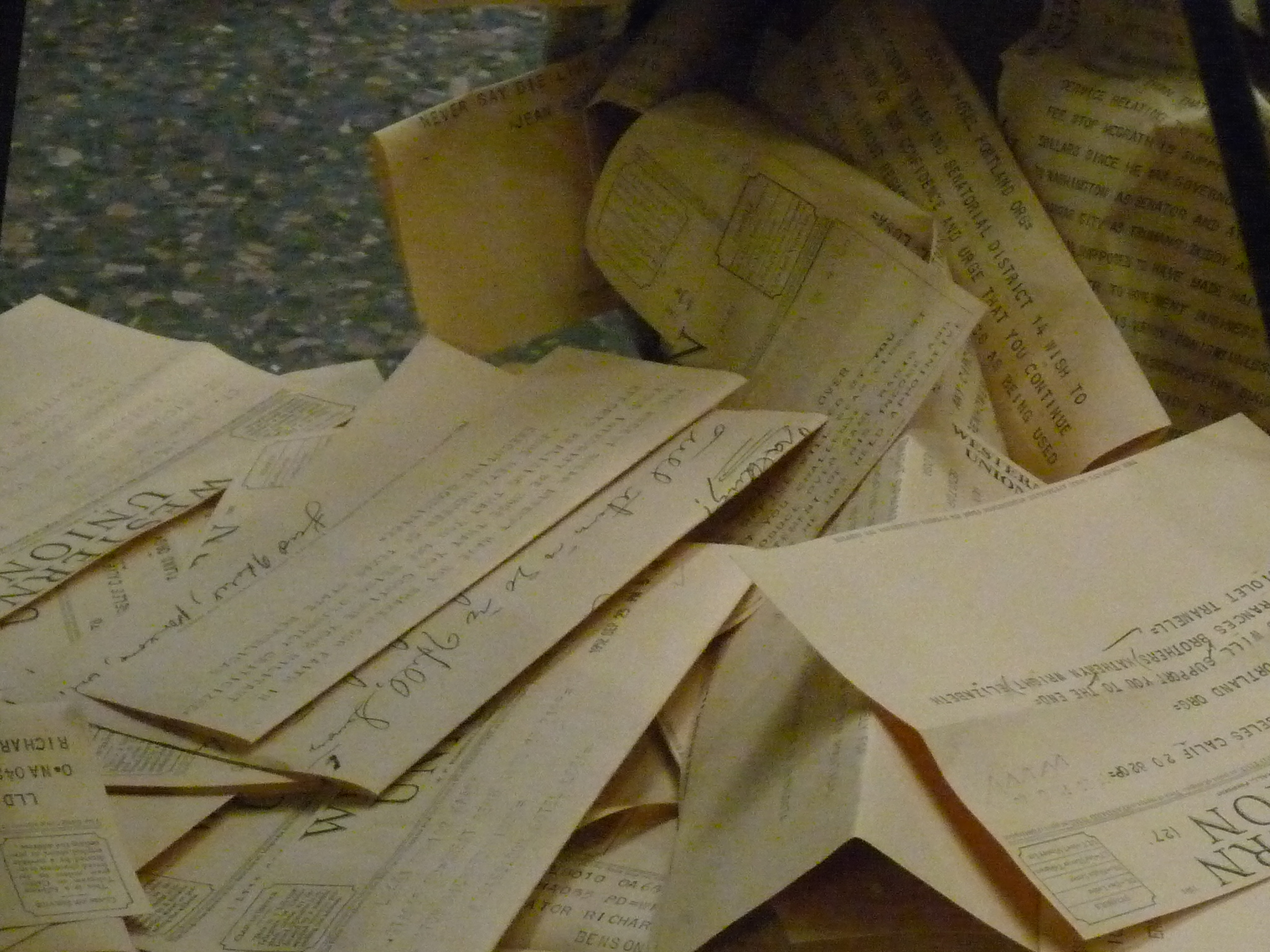 Assortment of telegrams noting support for Senator Richard Nixon after the Checkers speech, part of display at Richard Nixon Presidential Library and Museum, Yorba Linda CA